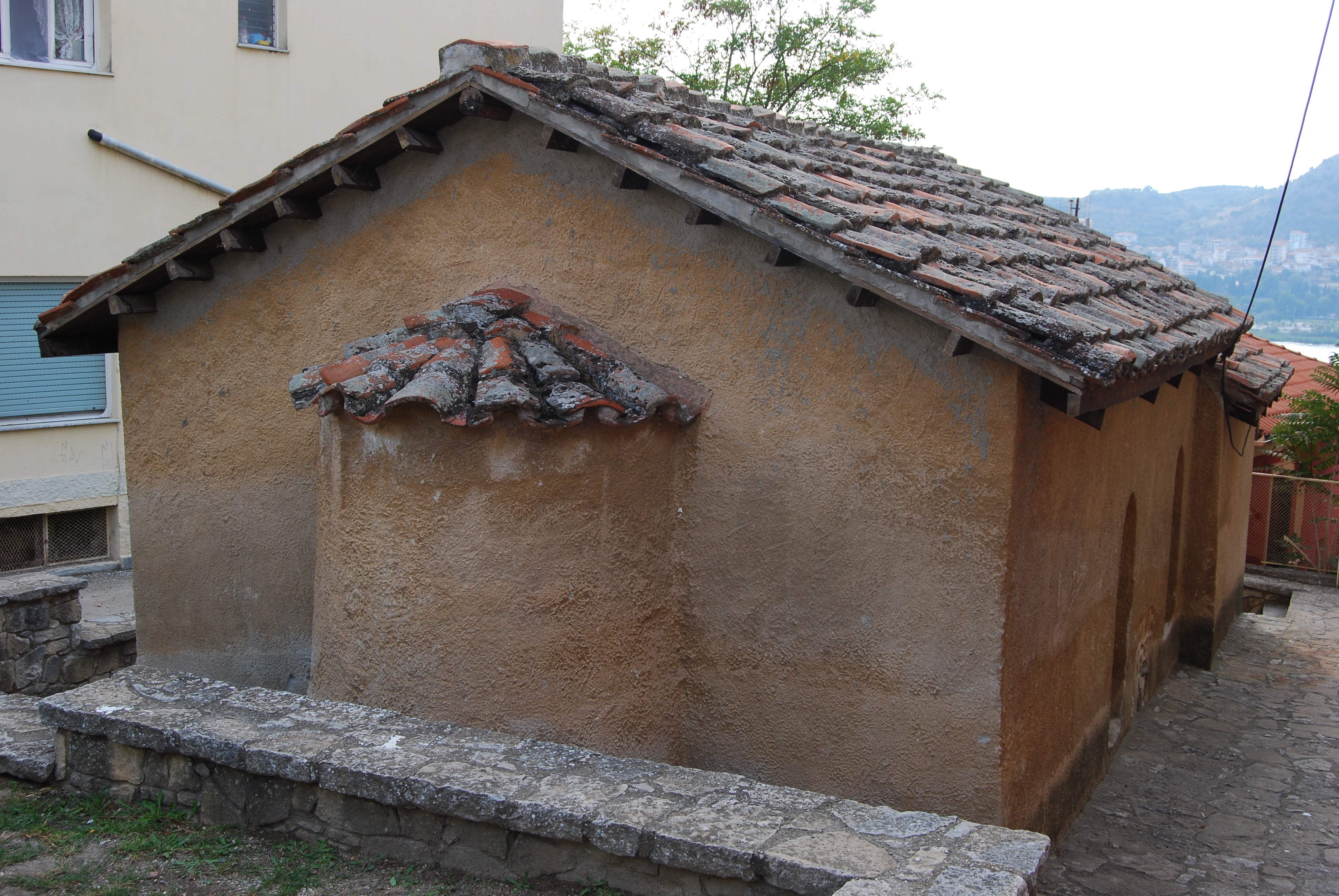 Saint Athanasius Mouzakis Church